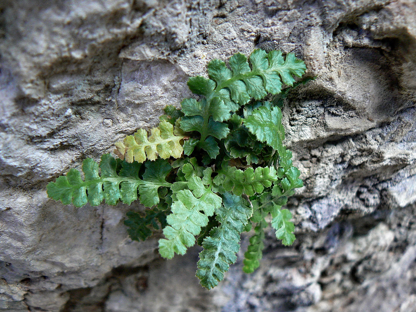 Asplenium jahandiezii, Gorges du Verdon, France